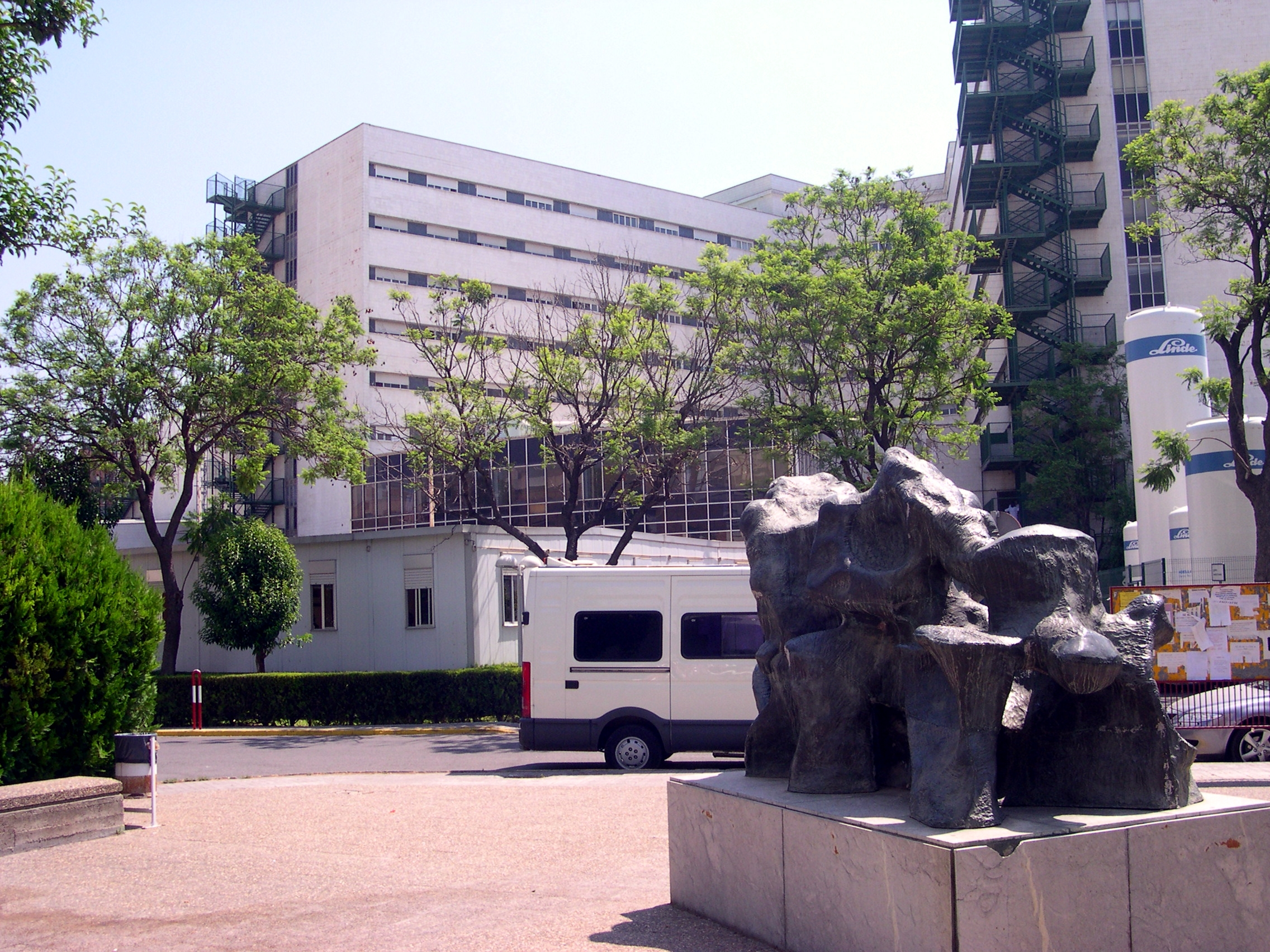 Hospital V. Macarena. Sevilla.Spain